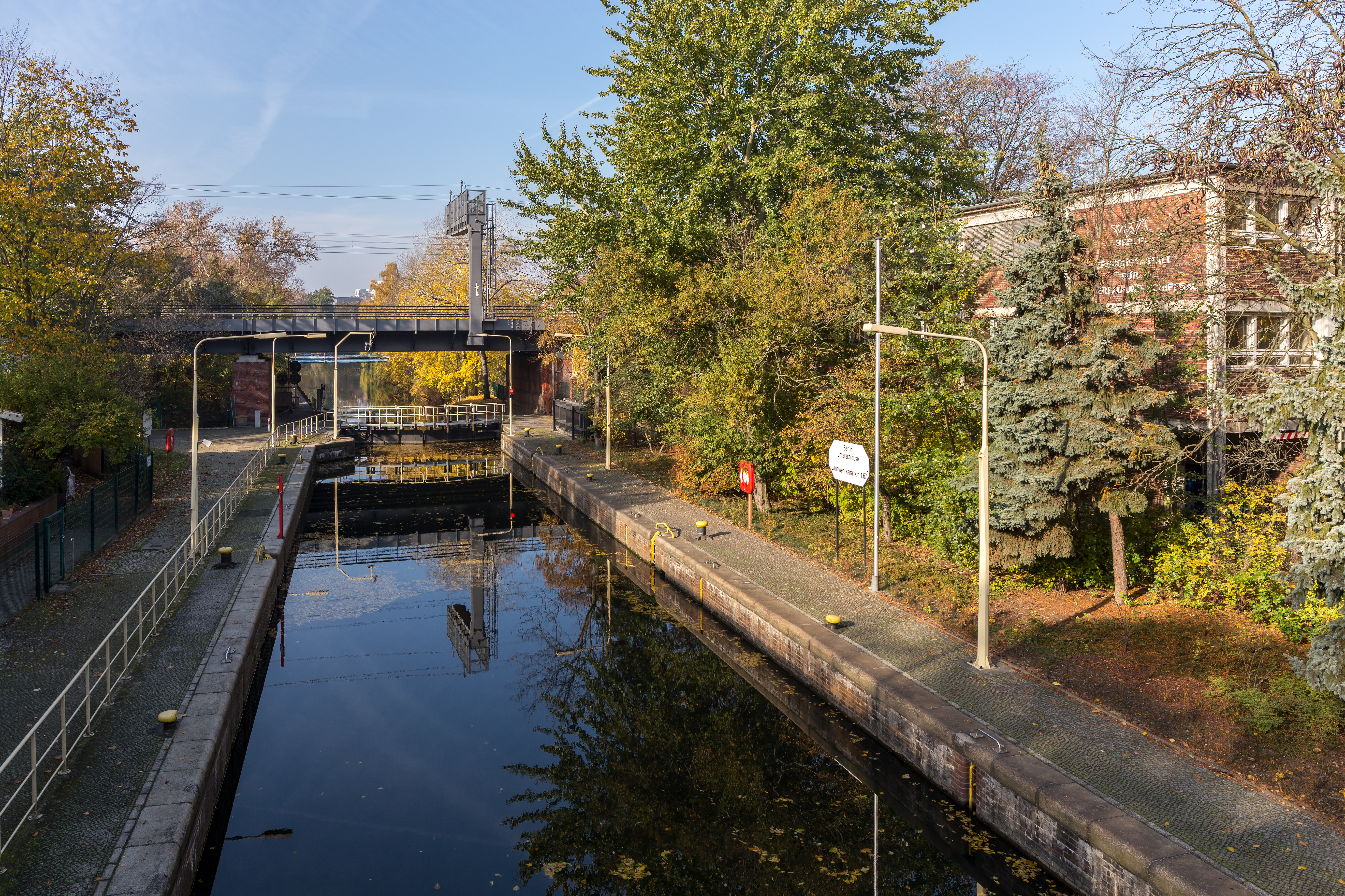 Unterschleuse (lock) of the Landwehrkanal in Berlin's Tiergarten district, in the background a railroad bridge.